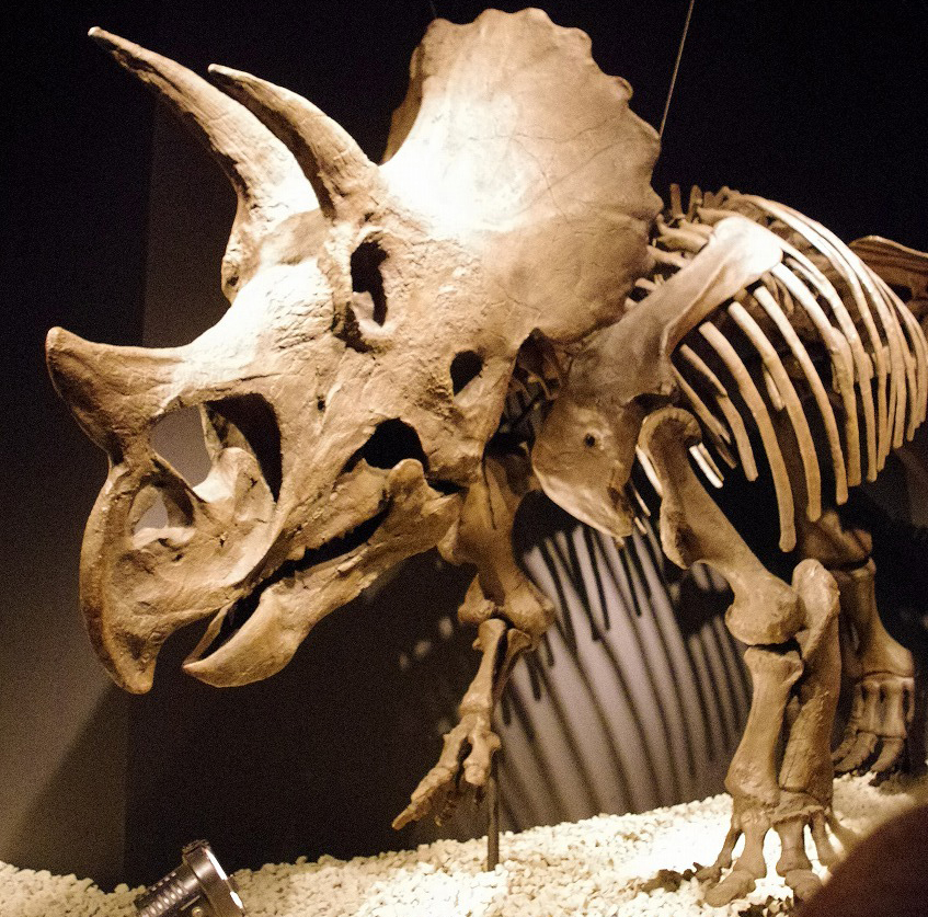 Triceratops horridus at the National Museum of Nature and Science, Japan トリケラトプス